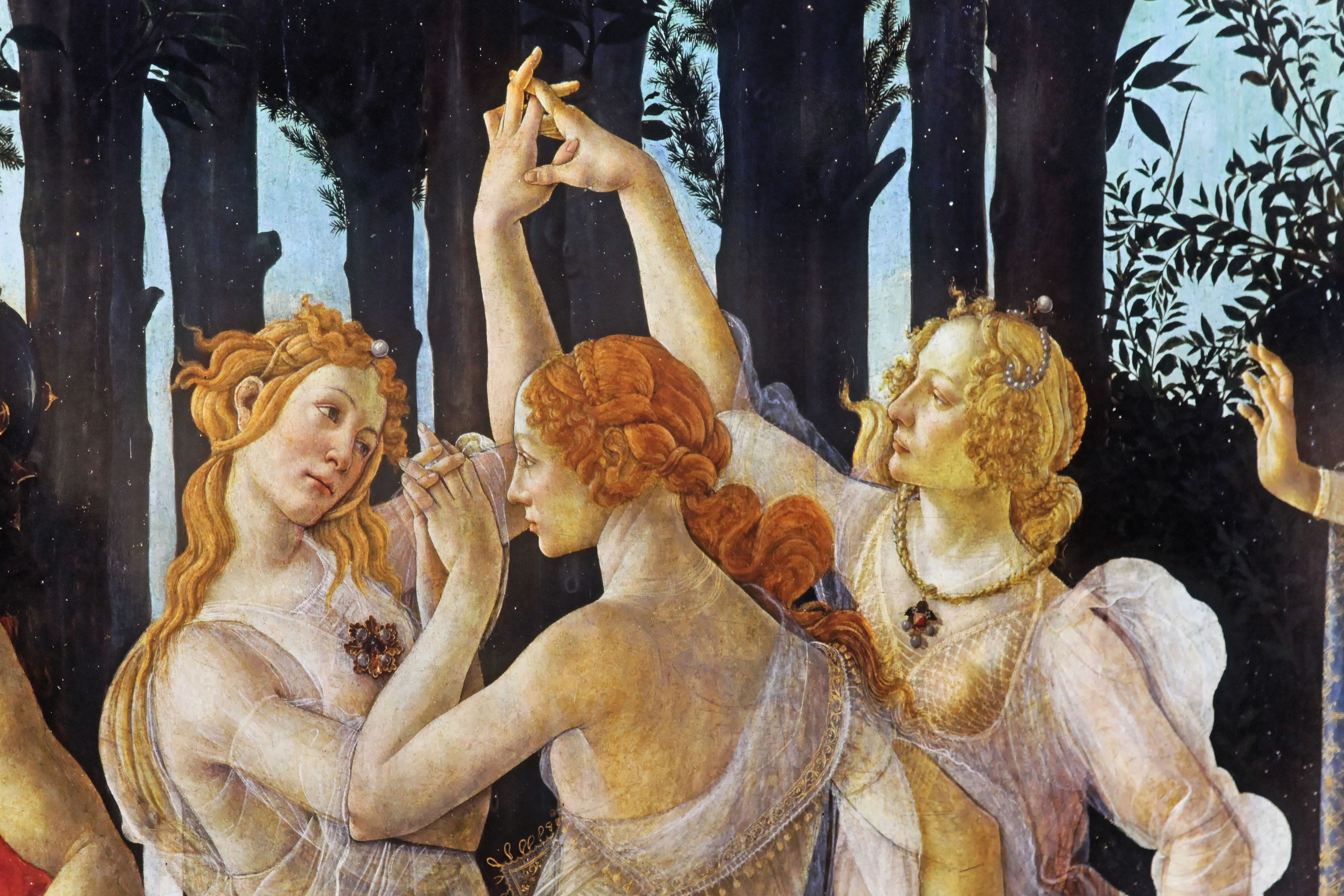 Primavera by Sandro Botticelli, "Der schöne Schein" exhibition of replicas of well-known artwork in the Gasometer in Oberhausen